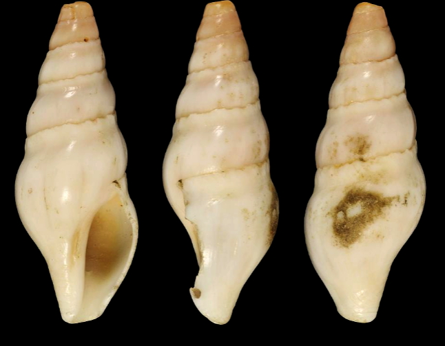 Pseudomelatoma penicillata (Carpenter, 1865); family Pseudomelatomidae; holotype of Drillia eburnea in the Smithsonian Institution